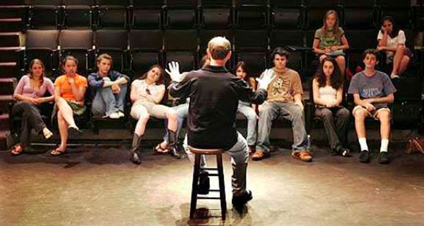 SCTG Production Meeting with Broderick Miller